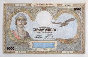 1000 Yugoslav dinars note (1929 version of the 1918 dinar)